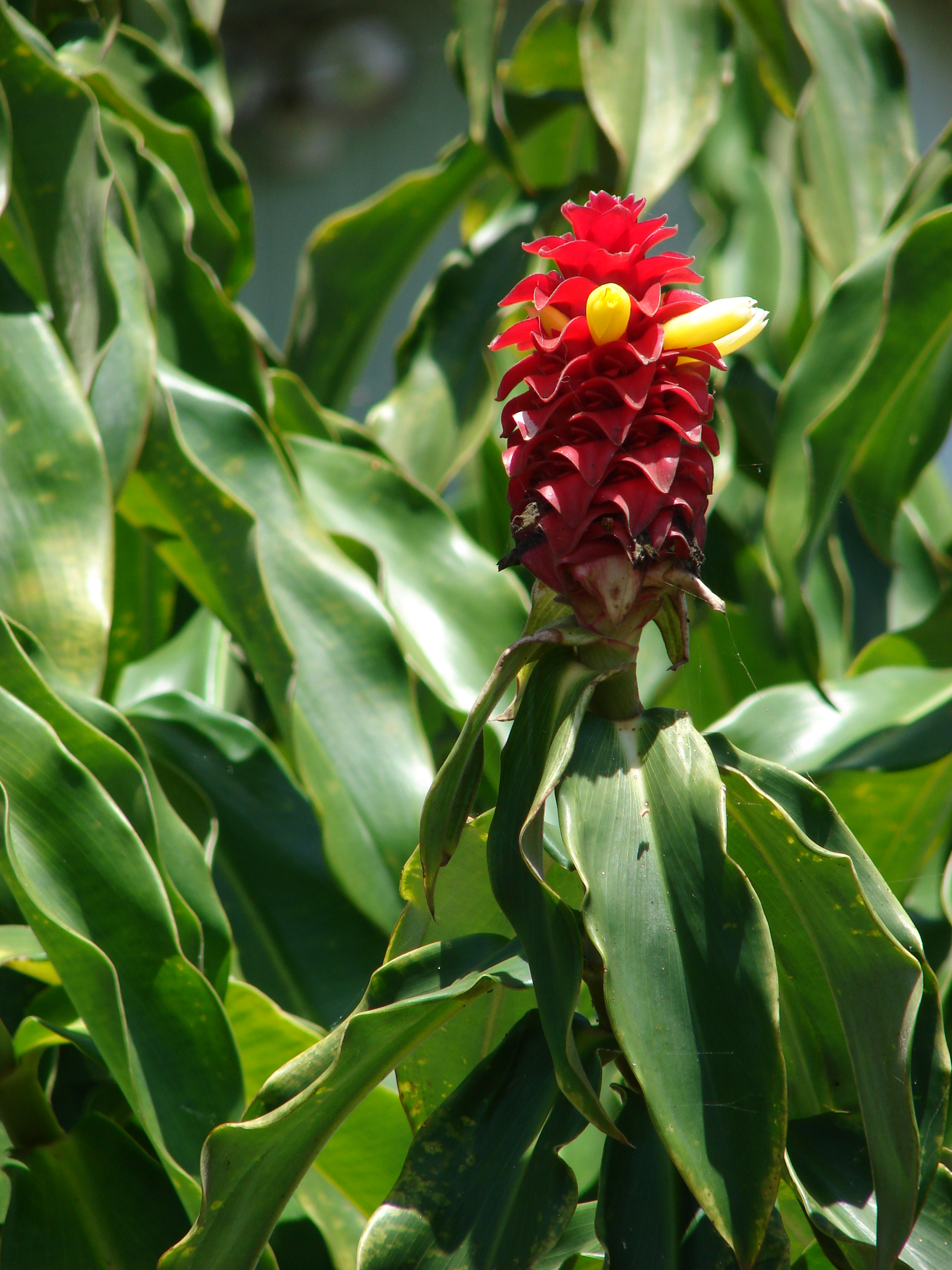 Costus comosus (flowers and leaves). Location: Lanai, Lanai City